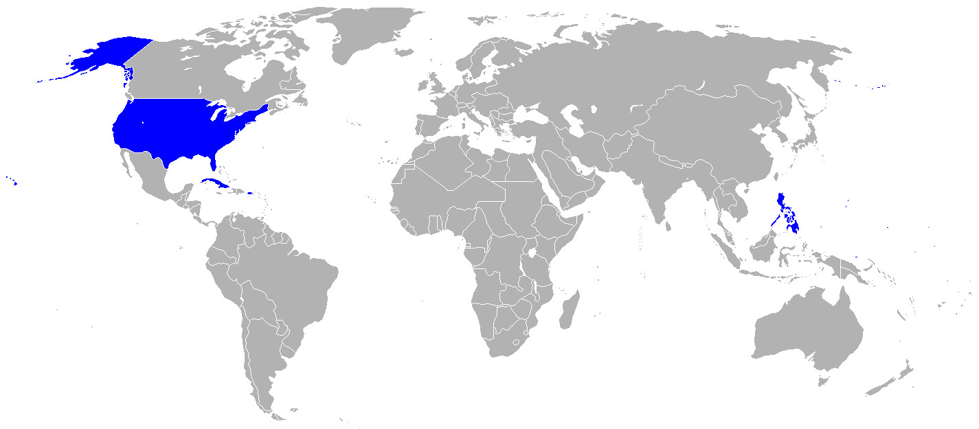 Map of American colonies at the end of the 19th century